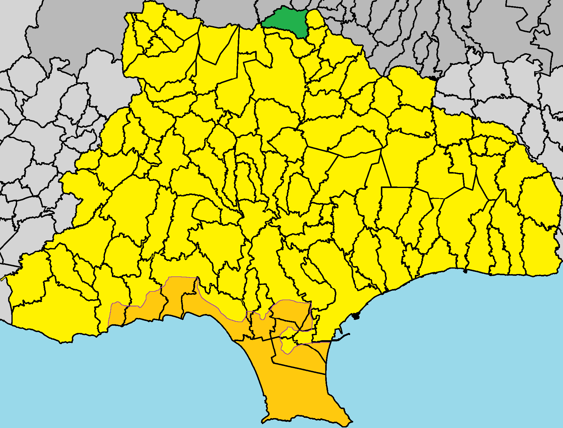 Kyperounta in Limassol District.